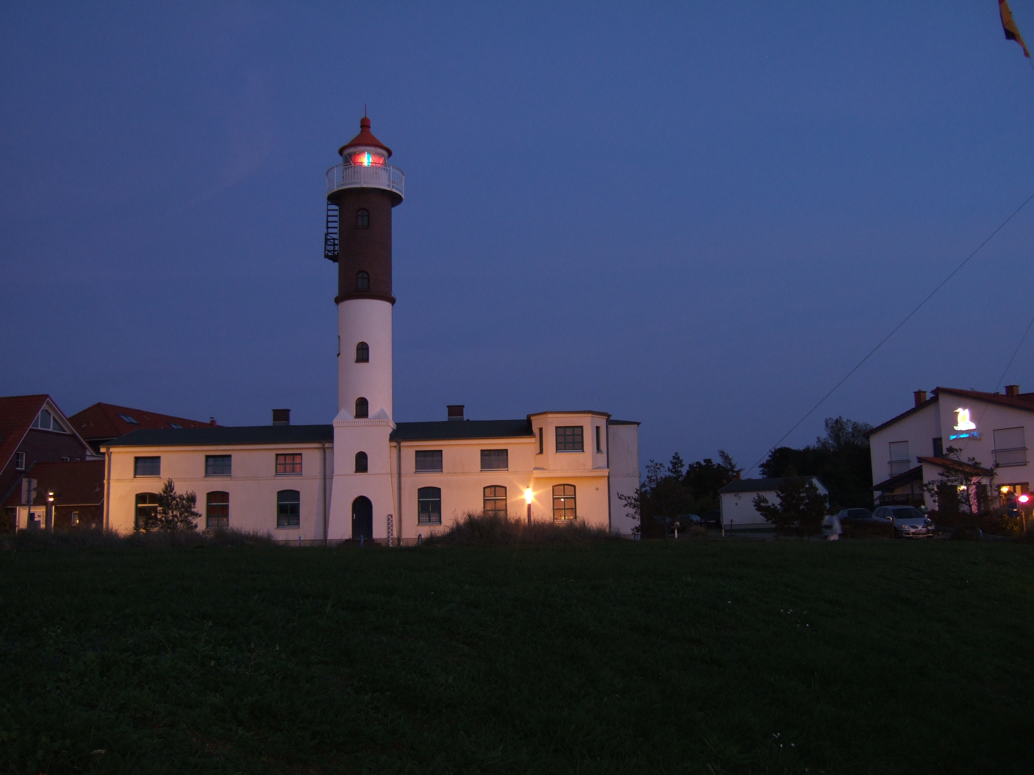 Lighthouse in Timmendorf on the isle of Poel (Germany) in the evening